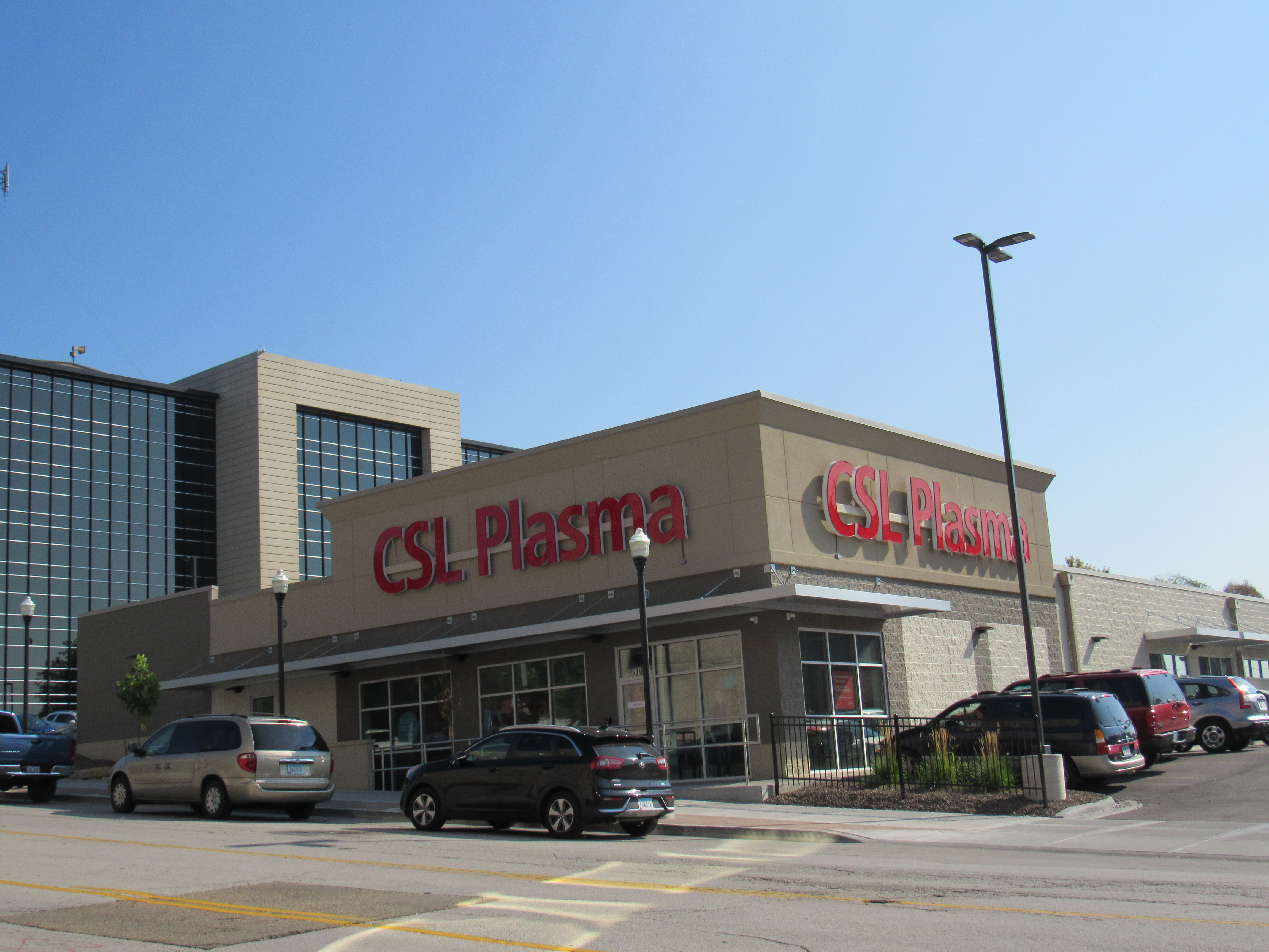 CSL Plasma in Davenport, Iowa is the location of the former American Telegraph & Telephone Co. Building, which was listed on the National Register of Historic Places.